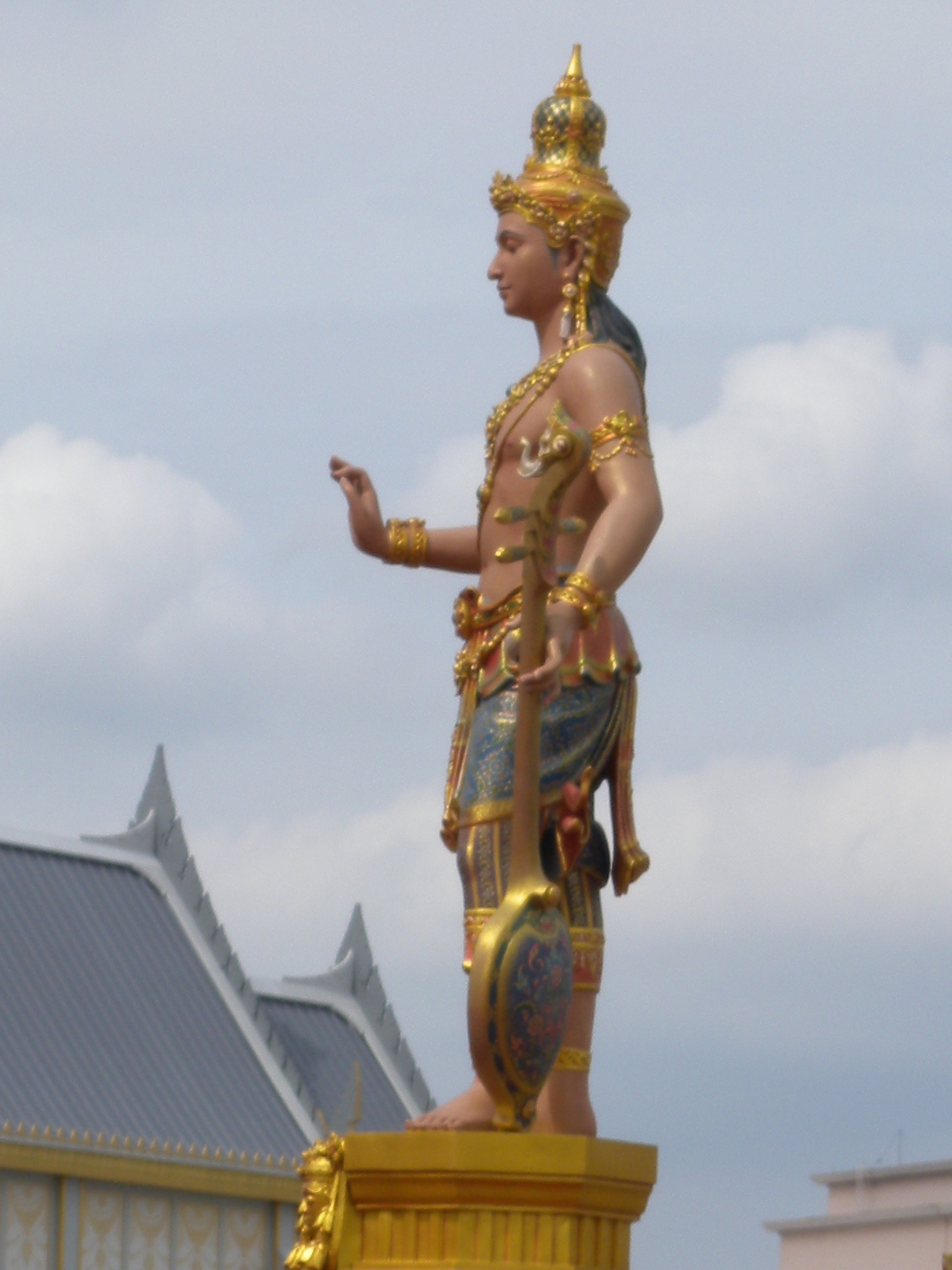 Thailand: Phra Thot sculpture Eastern square Viewed from the left Installed at the 1st floor of Chalcedon base, for the royal cremation ceremony His Majesty King Bhumibol Adulyadej Borommanathbophit at Sanam Luang Captured on 21 November 2017. 'Note:' The image shown here cannot be taken to photograph the sculpture from the front directly. Because the exhibition committee of the royal cremation ceremony of His Majesty King Bhumibol Adulyadej Borommanat Bophit forbids the visitors to go up to the scene of the King. In order to prevent damage that may occur to the Lord Buddha and various artistic works Arising from visitors to the exhibition